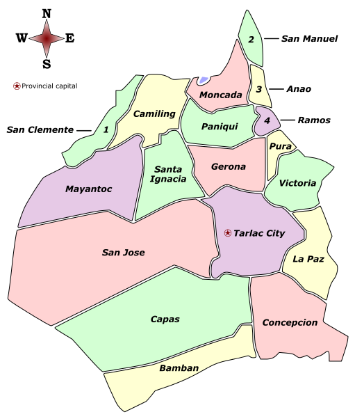 Labelled colored map of the province of Tarlac, showing its component city and municipalities.